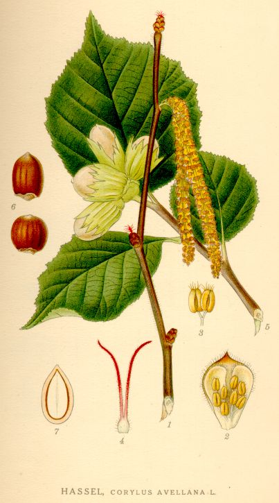 Corylus avellana